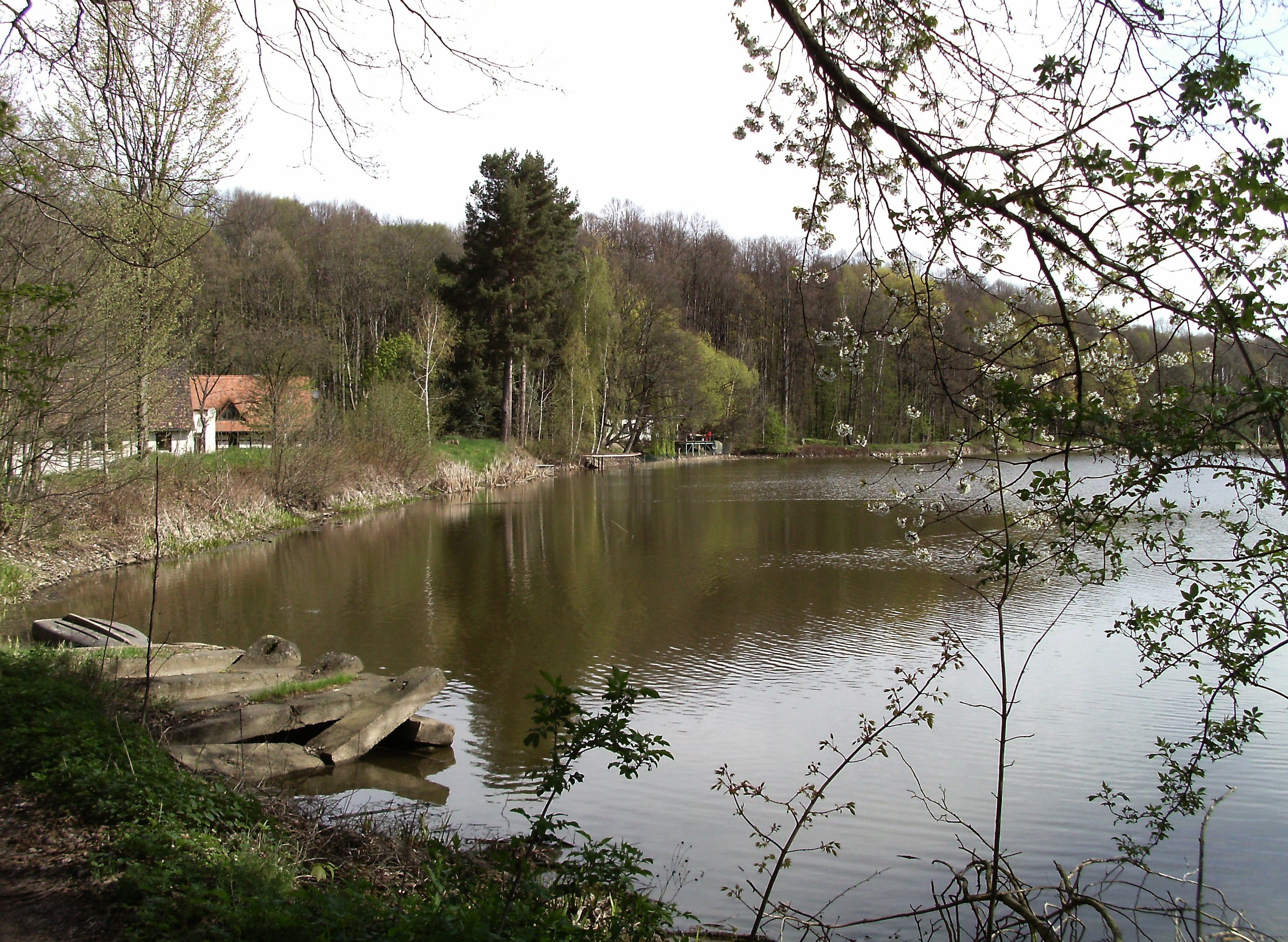 Hegeteich, a pond near Narsdorf (Leipzig district, Saxony)